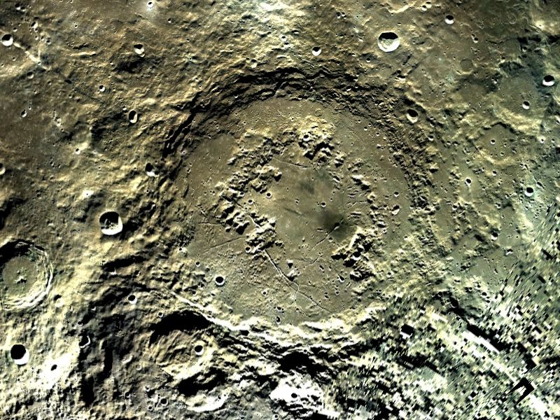 Schrödinger impact basin. Schrödinger is a complex crater with a diameter of 320 km, and a inner peak ring with of 150 km diameter.